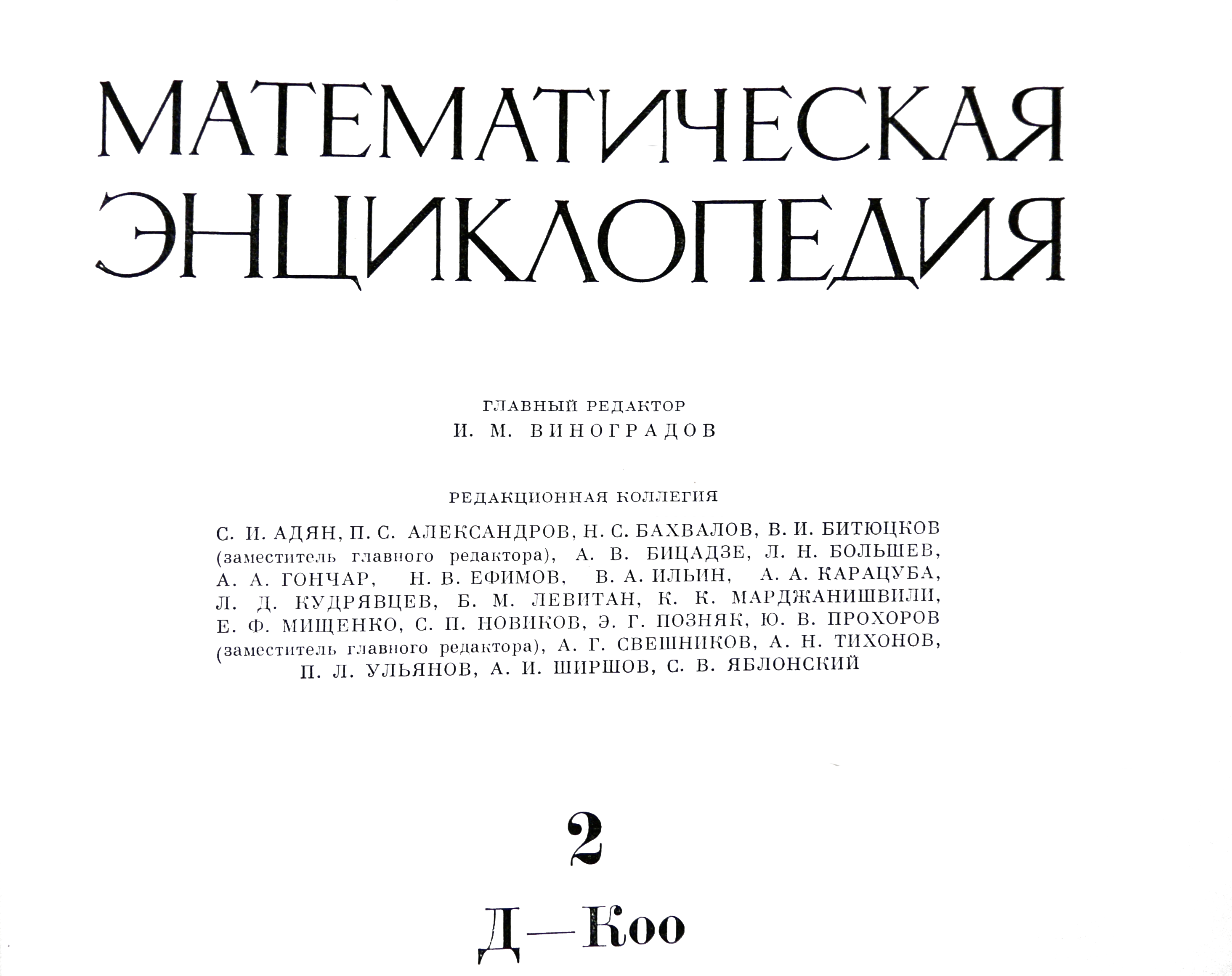 Title page of mathematical encyclopedia